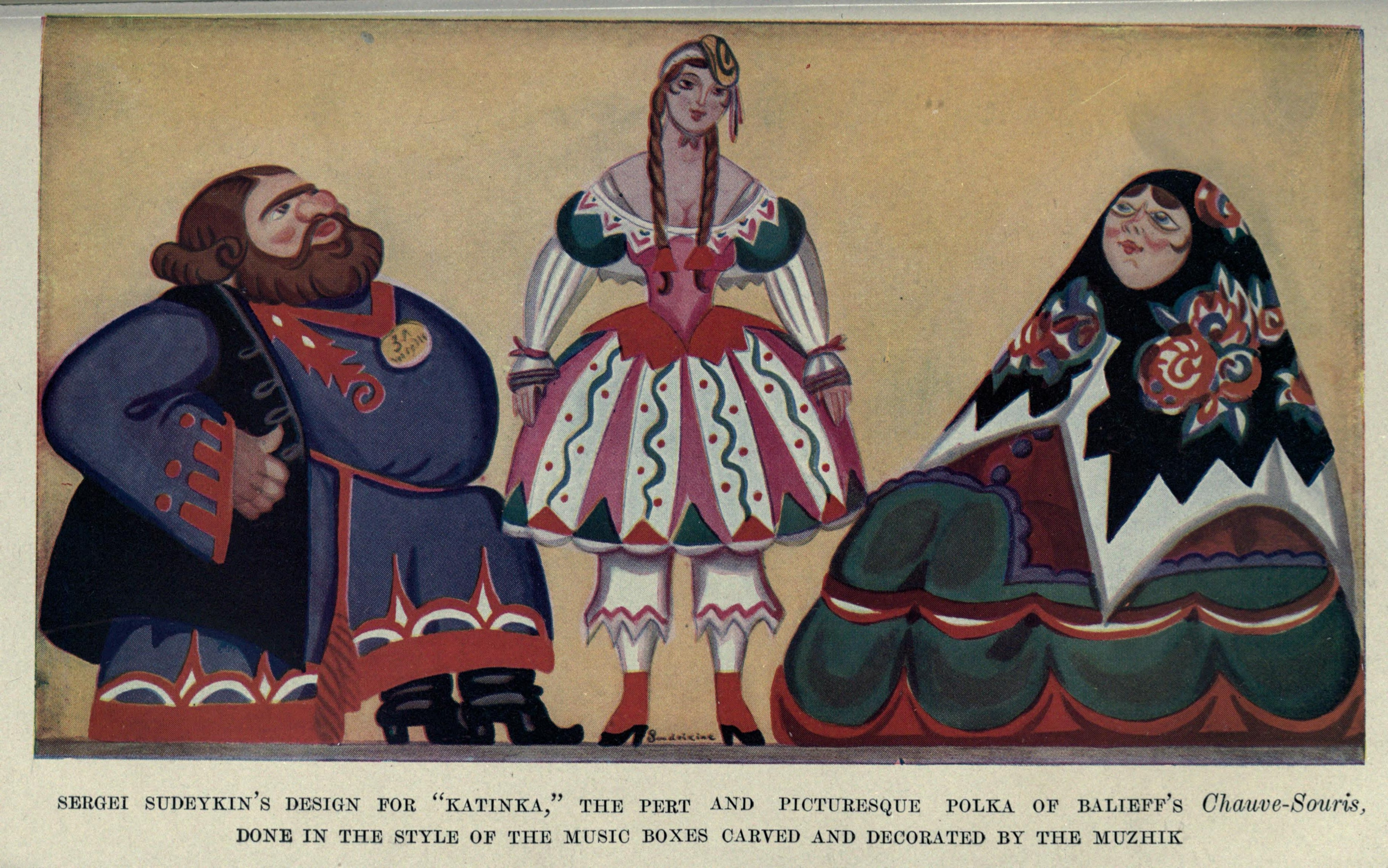 Design by Sergei Sudeikin